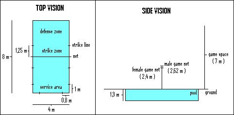 The brazilian sport Biribol field and numbers picture.